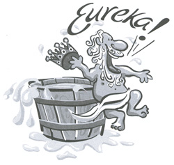 Eureka e Arkimedit